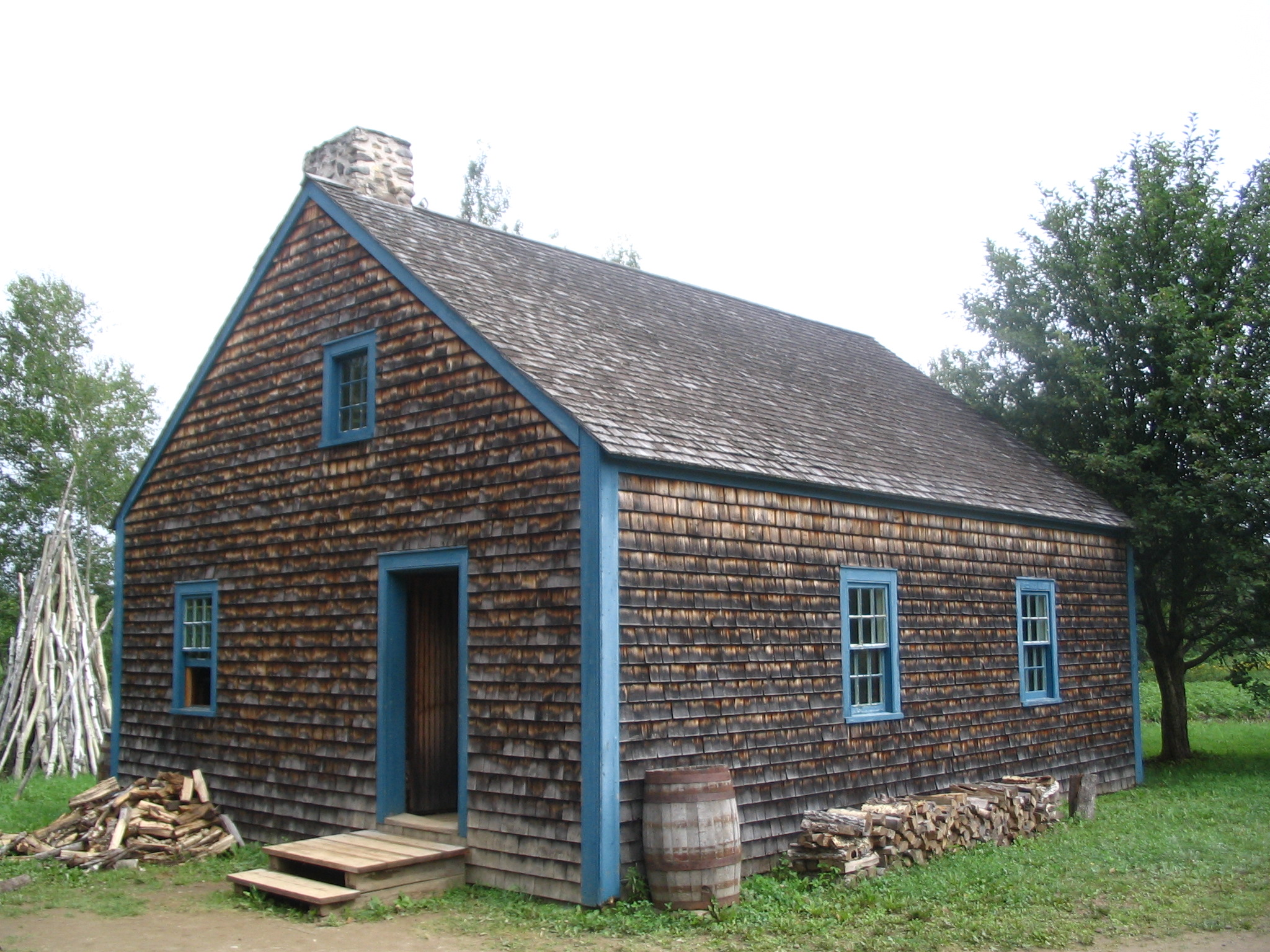 The Doucet farm, as opposed to the file name.